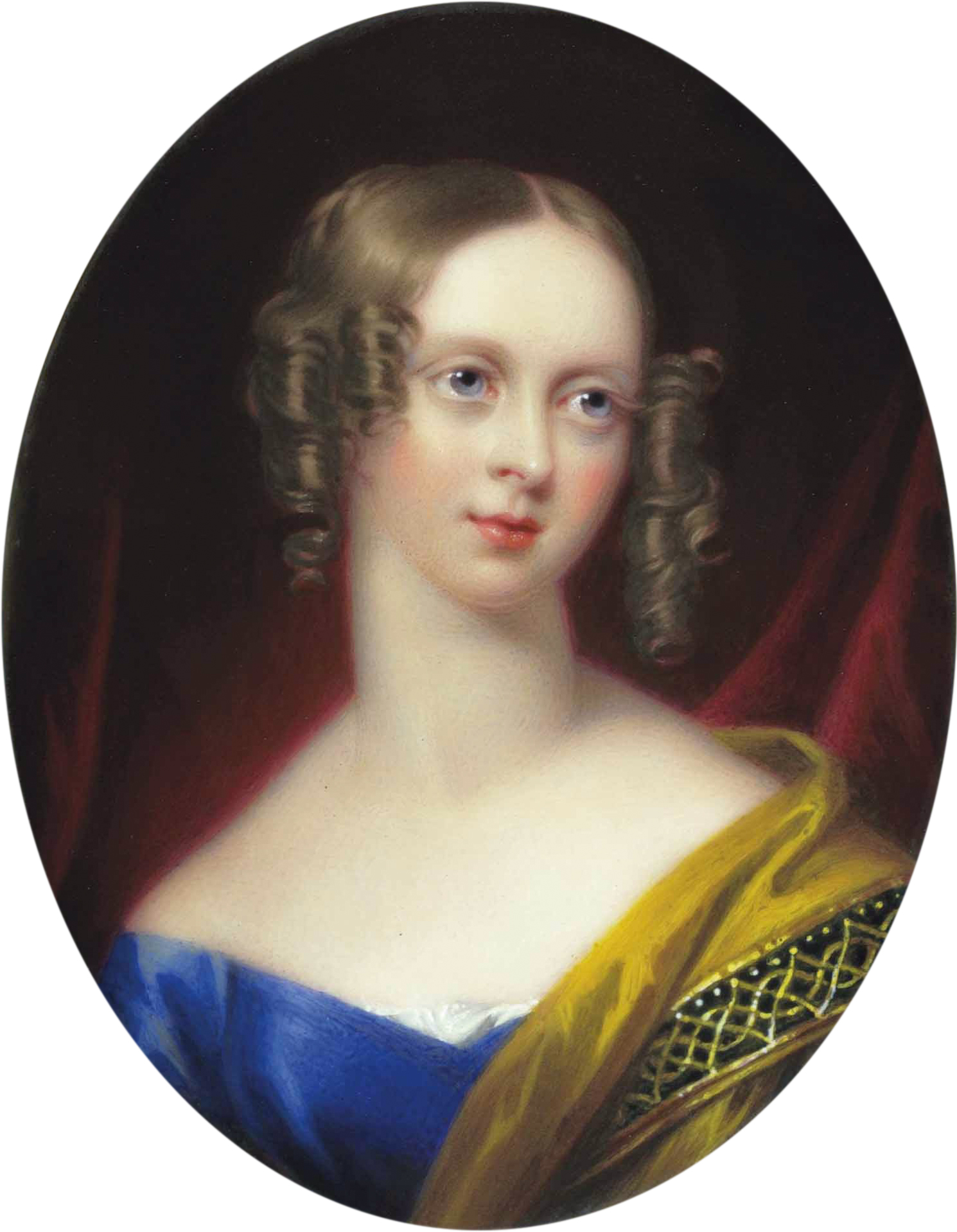 Emily Mary, Countess of Craven, née Grimston (d. 1901) enamel 7,6 cm. high